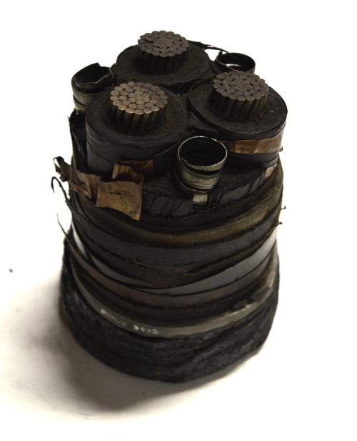 Large Voltage electrical Cable, from the University of Dundee Museum Collections.